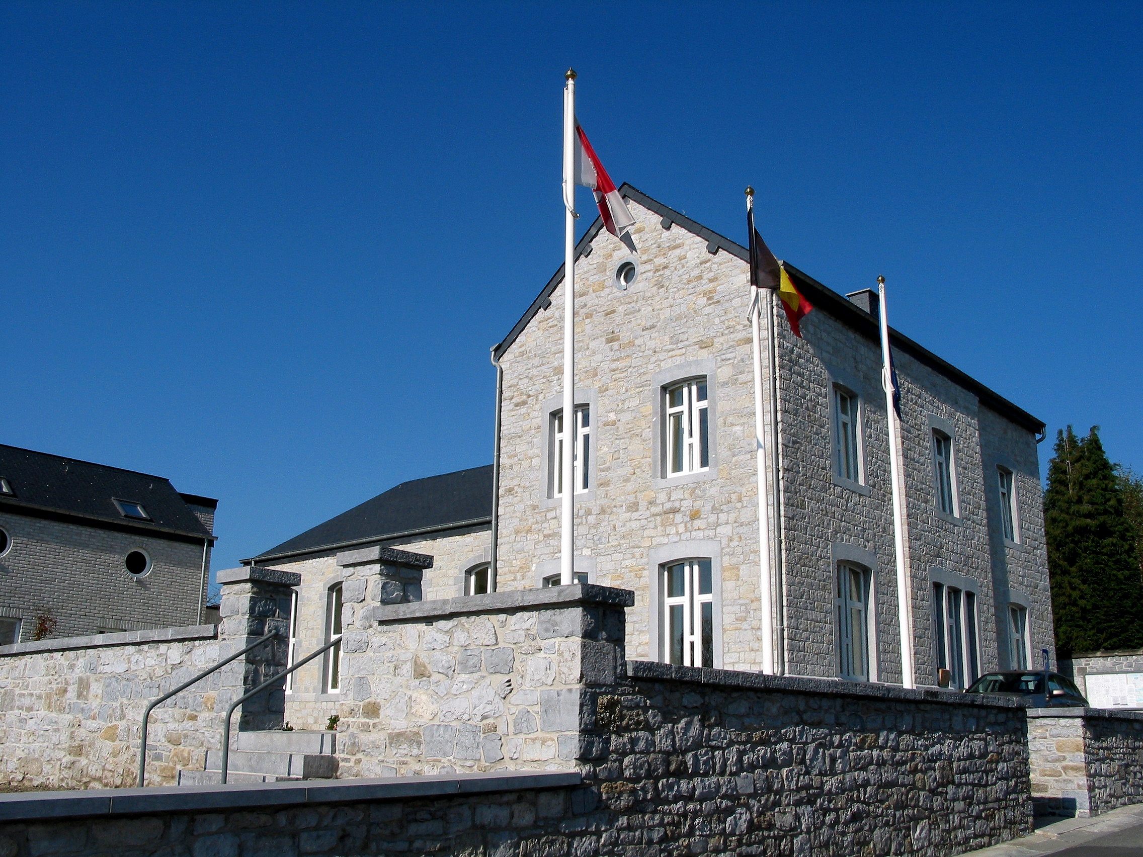 Onhaye (Belgium), the new buildings of the town hall built in the previous elementary school.